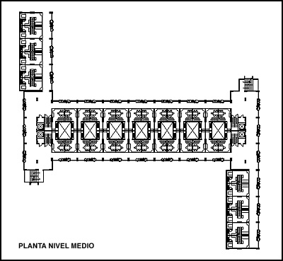 planta nivel medio del CUPA